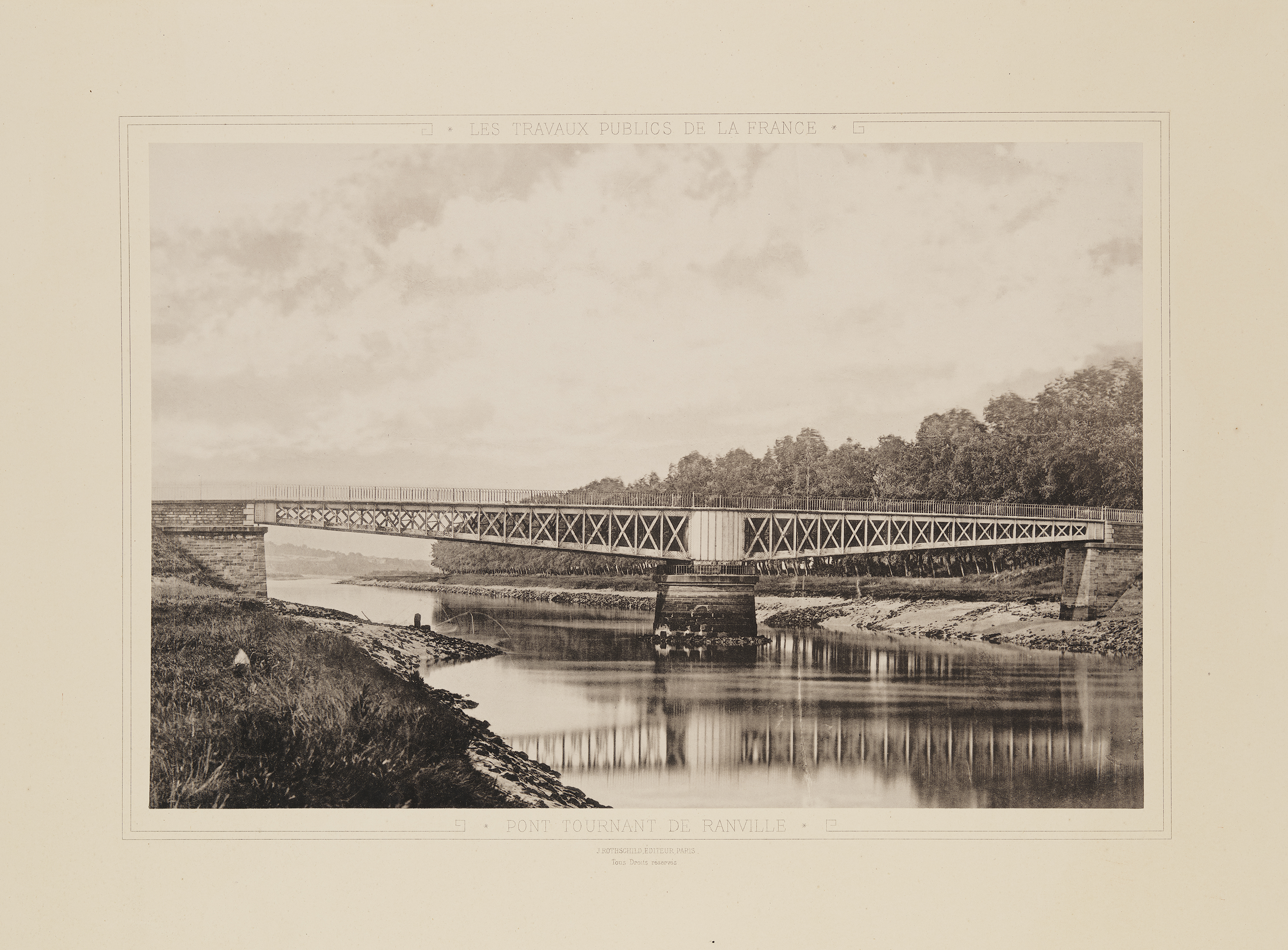 Title: Pont Tournant de Ranville Alternative Title: Ranville Swing Bridge Creator: Unknown Date: 1883 Part Of: Les Travaux Publics de la France, Tome Troisieme: Rivieres et Canaux, Eaux des Villes - Irrigation et Assainissement des Terres Place: Ranville, Calvados, Basse-Normandie, France Physical Description: 1 photographic print: collotype; 26 x 35 cm on 40 x 56 cm mount File: vault_folio_2_ta71_a4_1883_3_09_opt.jpg Rights: Please cite Southern Methodist University, Central University Libraries, DeGolyer Library when using this image file. A high-quality version of this file may be obtained for a fee by contacting . For more information, see